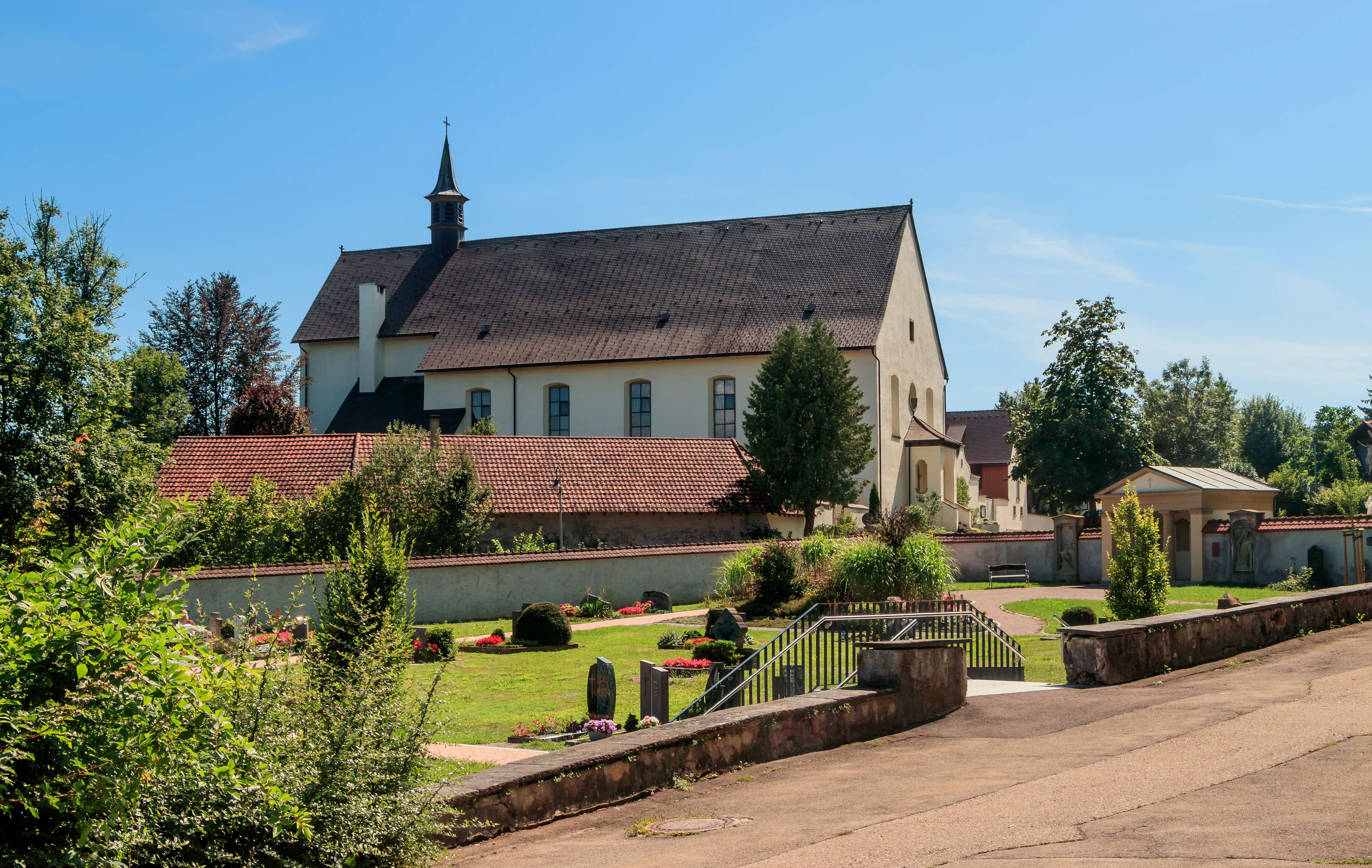 Pilgrimage and monastery church „Maria Loreto“, Stühlingen, Germany